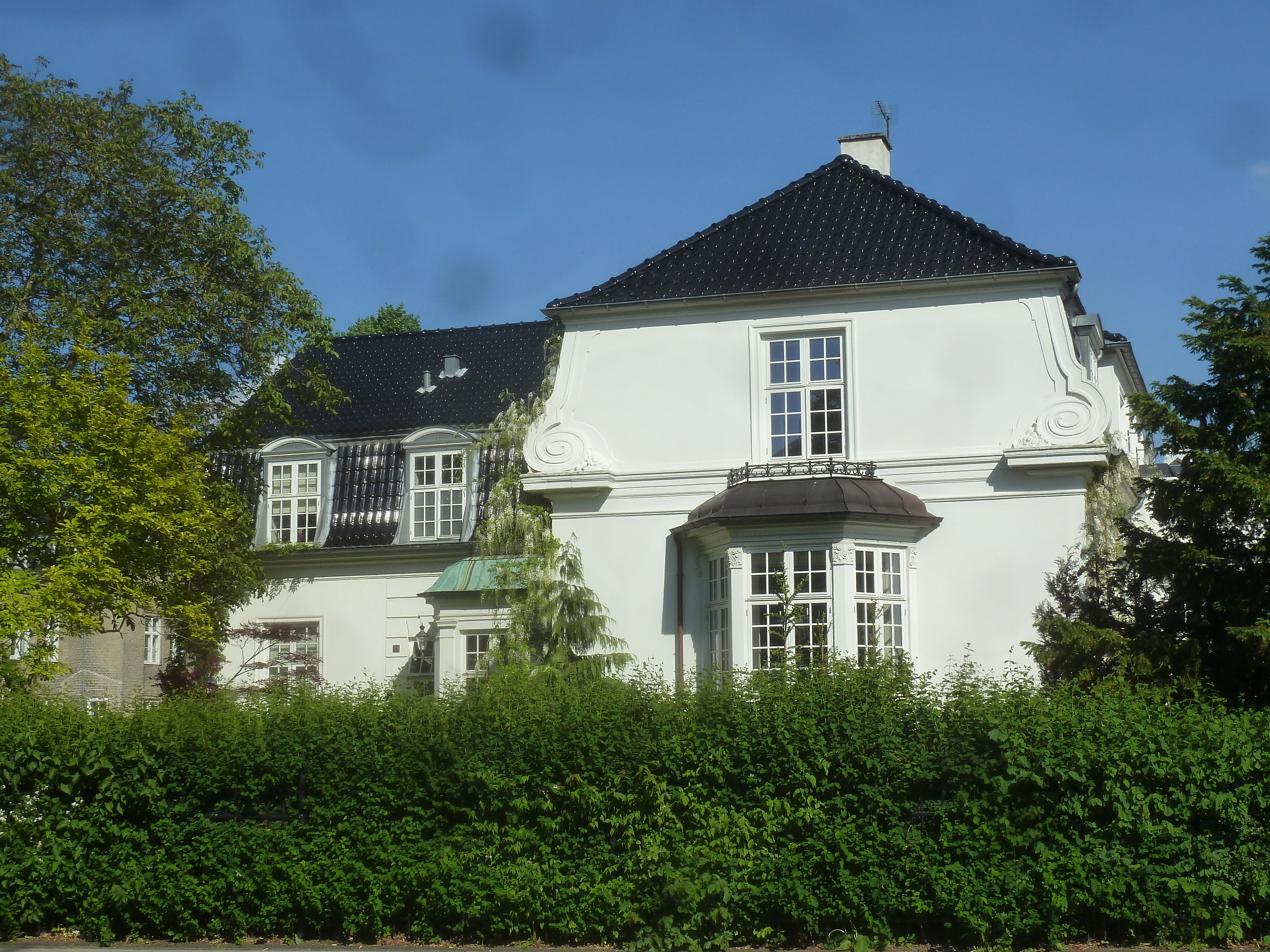 Amalievej 2 as seen from Bülowsvej in Frederiksberg, Copenhagen, Denmark